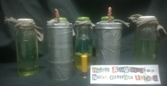 Bombas de tuberías utilizadas por Núcleos Antagónicos de la Nueva Guerrilla Urbana antes de una manifestación violenta